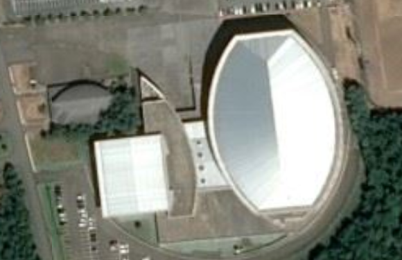 Satellite view